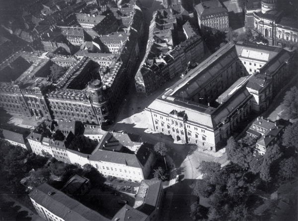 The big building on the right (north) is the Albertinum in Dresden, Germany.